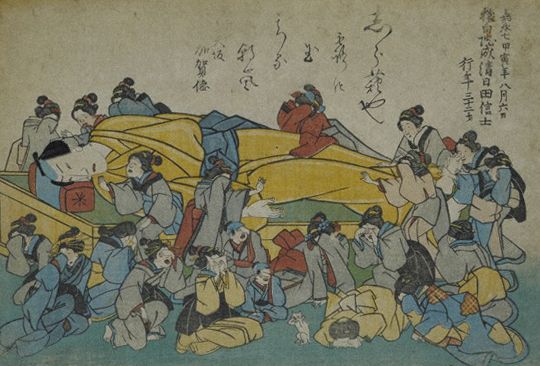 Copy of Buddha's Nirvana's picture